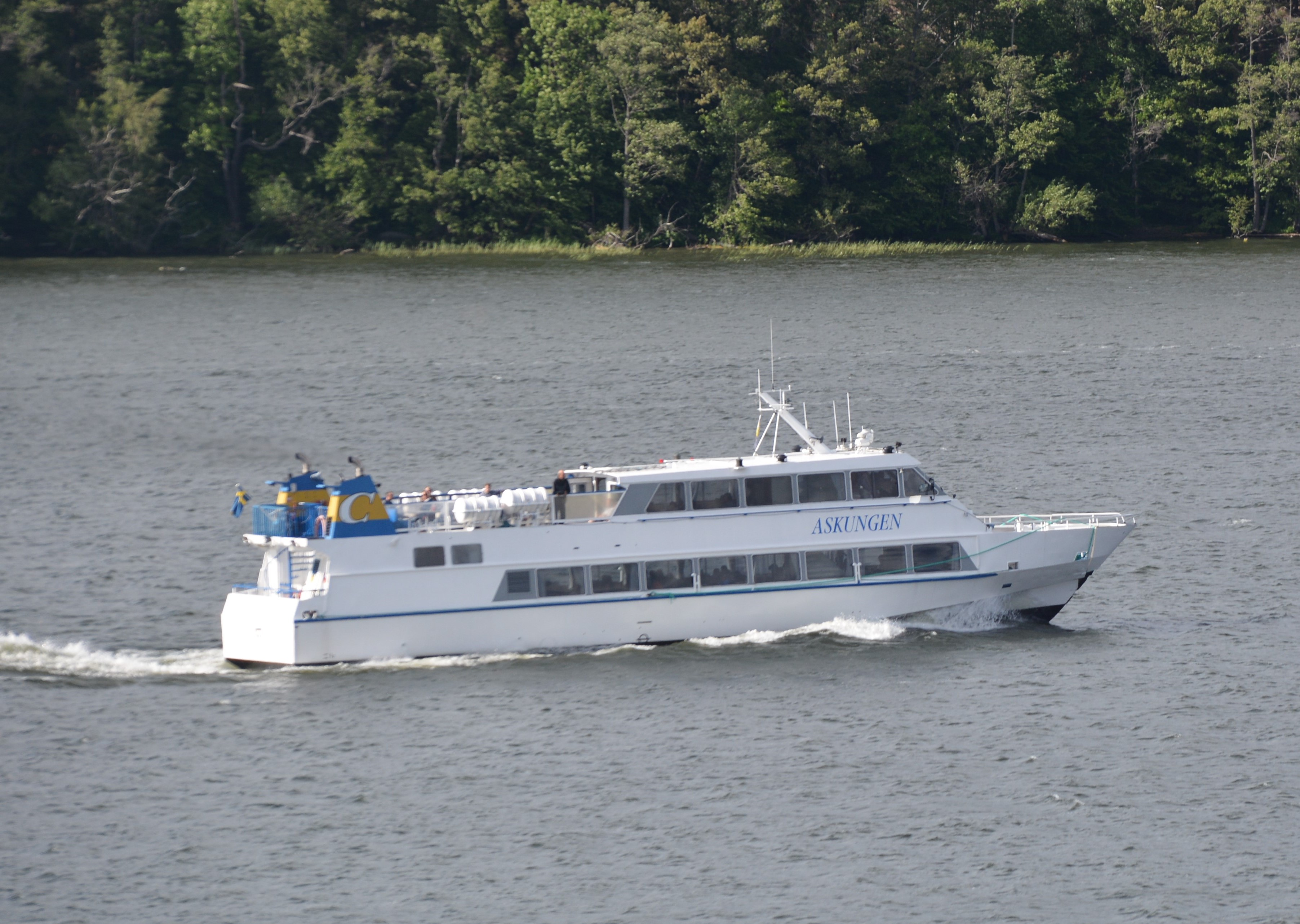 MS Askungen, outside Björnholmen, Ekerö municipality, Sweden